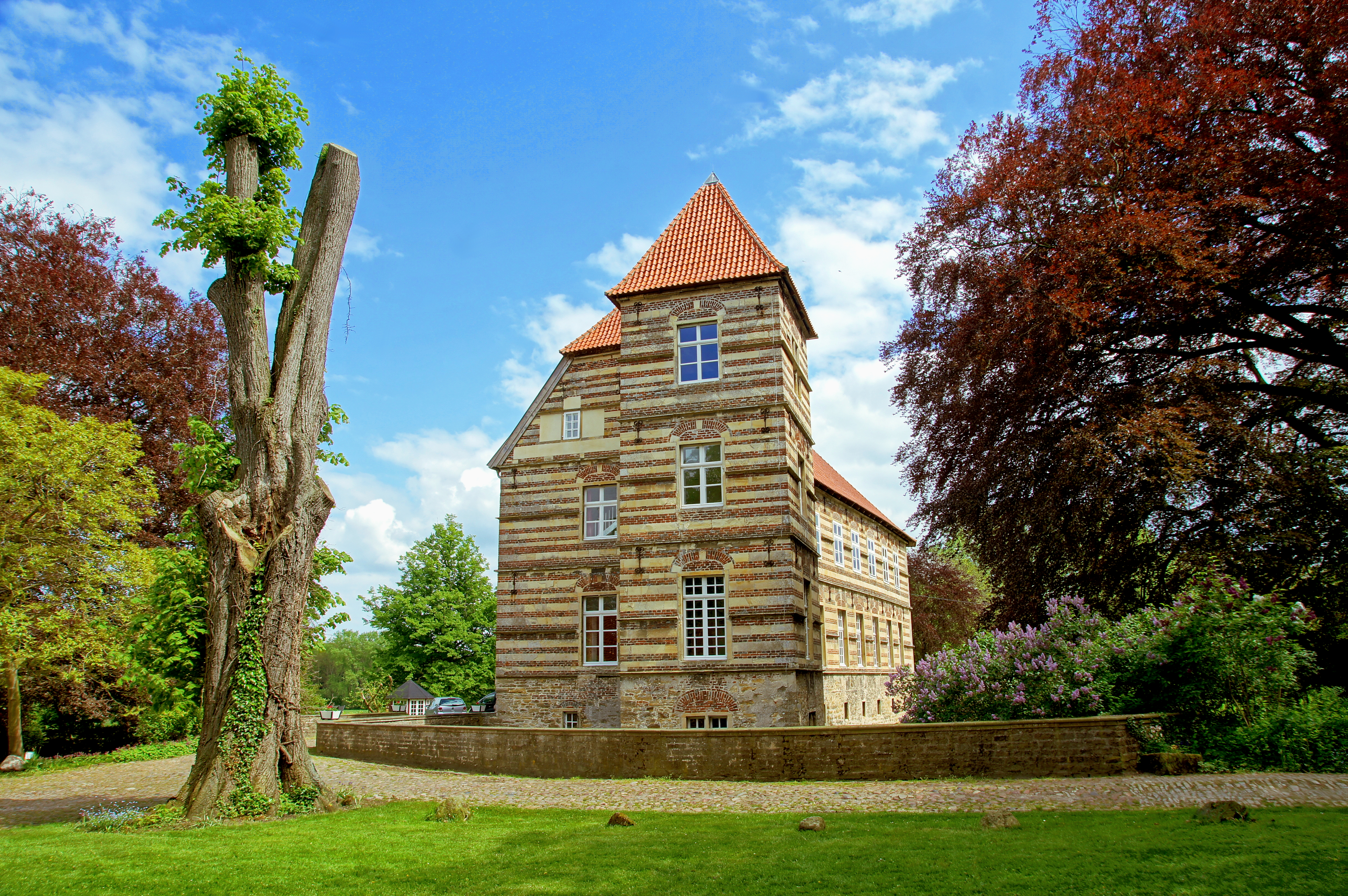 Haus Alst is a water castle in Horstmar, district of Steinfurt, North Rhine-Westphalia, Germany. This is a photograph of an architectural monument. /04